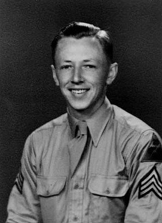 United States Army portrait of staff sergeant Charles M. Schulz in army uniform, circa 1943[1]